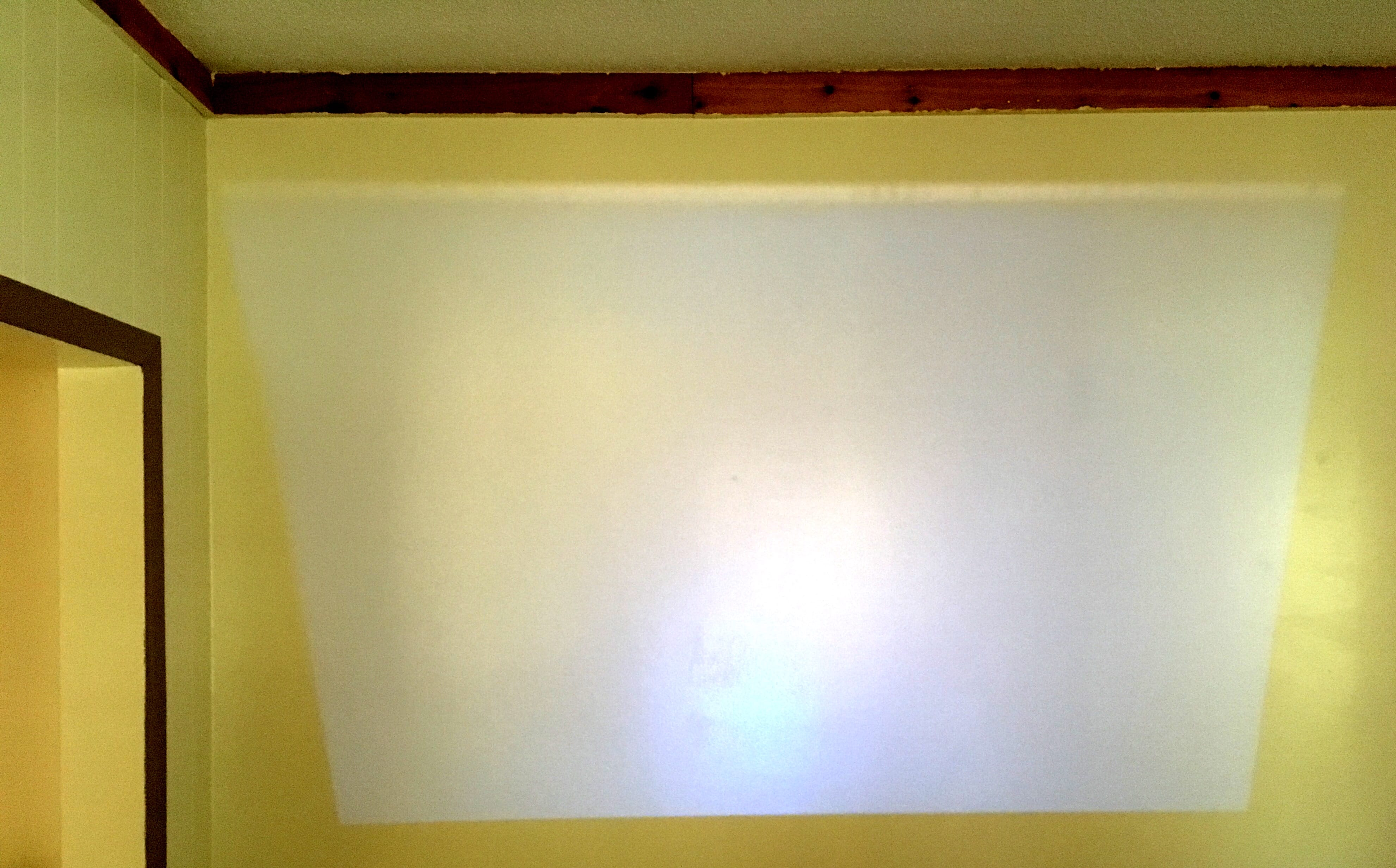 The projected image has been keystone-corrected; because the projector is below the center of the image, the image is trapezoidal.